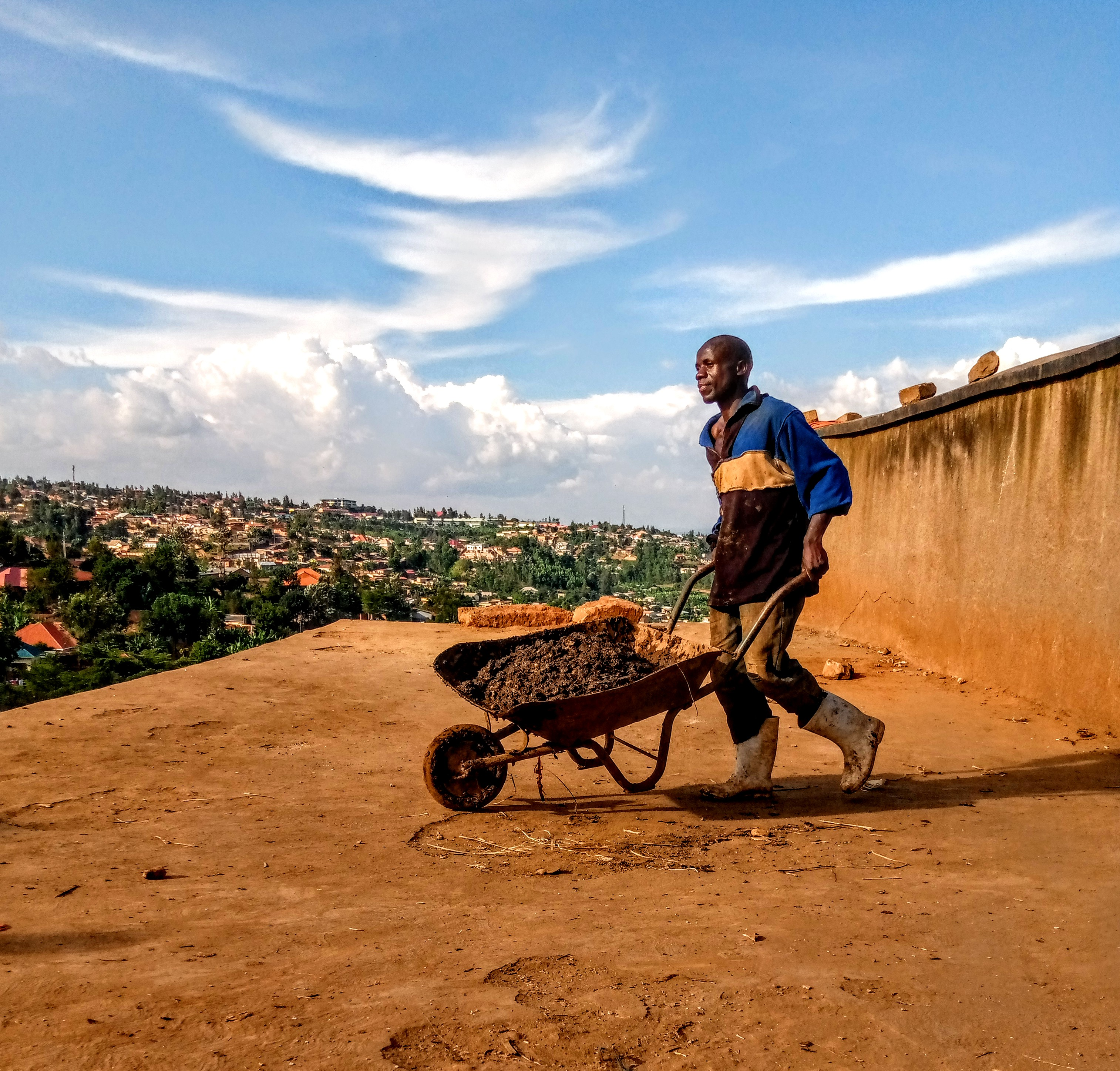 This picture reveals how hardworking Africans are! This is an image with the theme "Africa on the Move or Transport" from: Rwanda